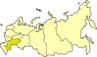 povolzhye economic region based on Image:Economic regions of Russia.png